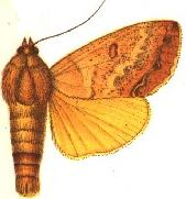 PLATE CCXIV.